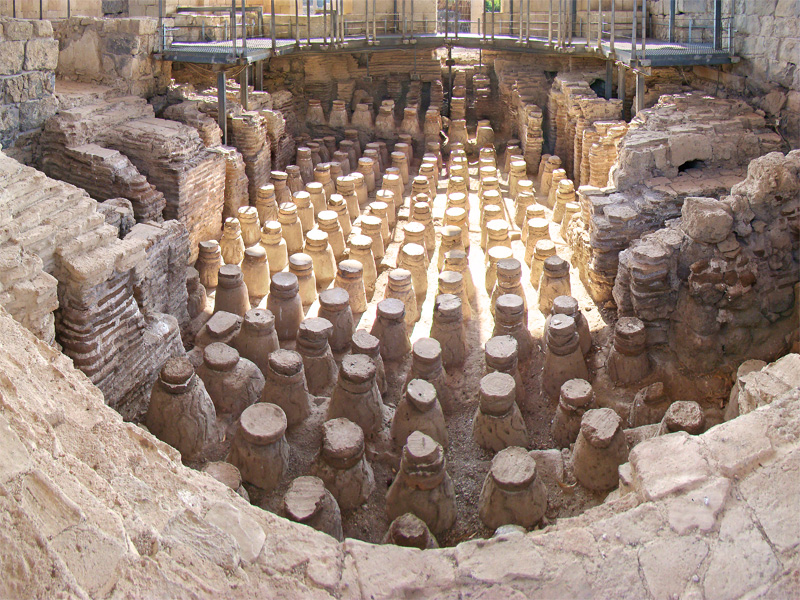 Roman thermae of Scythopolis, Beit She'an, Israel.